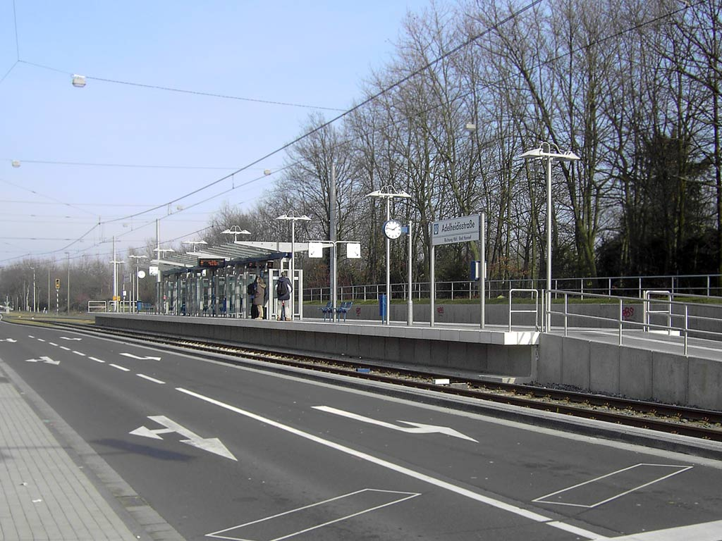 Urban railway stop Adelheidisstraße in Bonn.